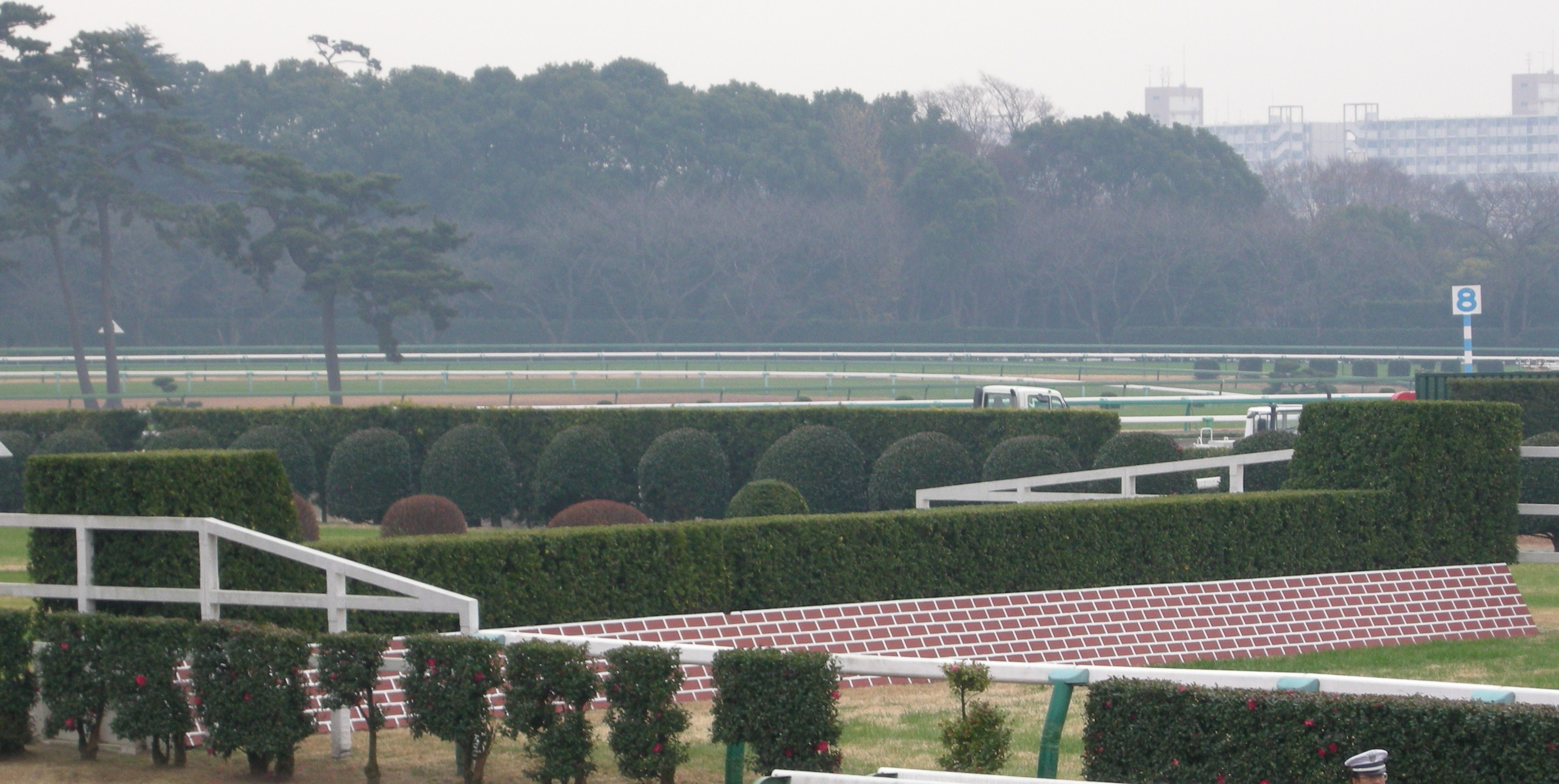 Hedge (racecourse)